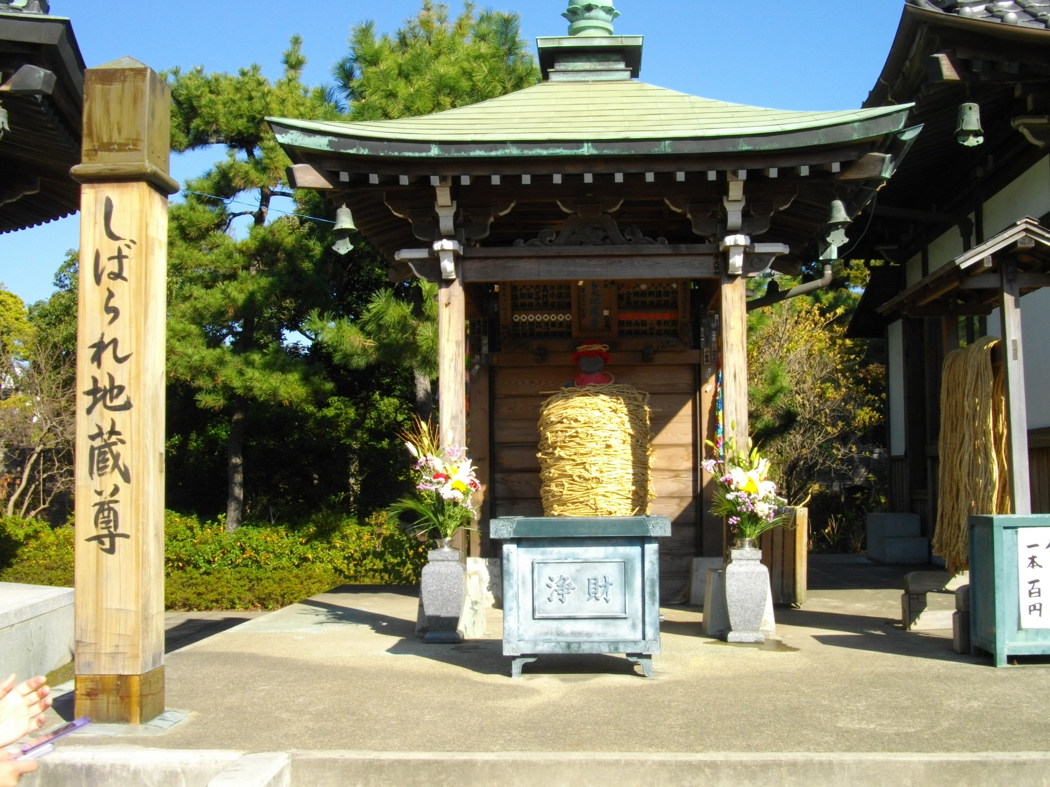 Shibarare-Jizo (Bound Jizo)